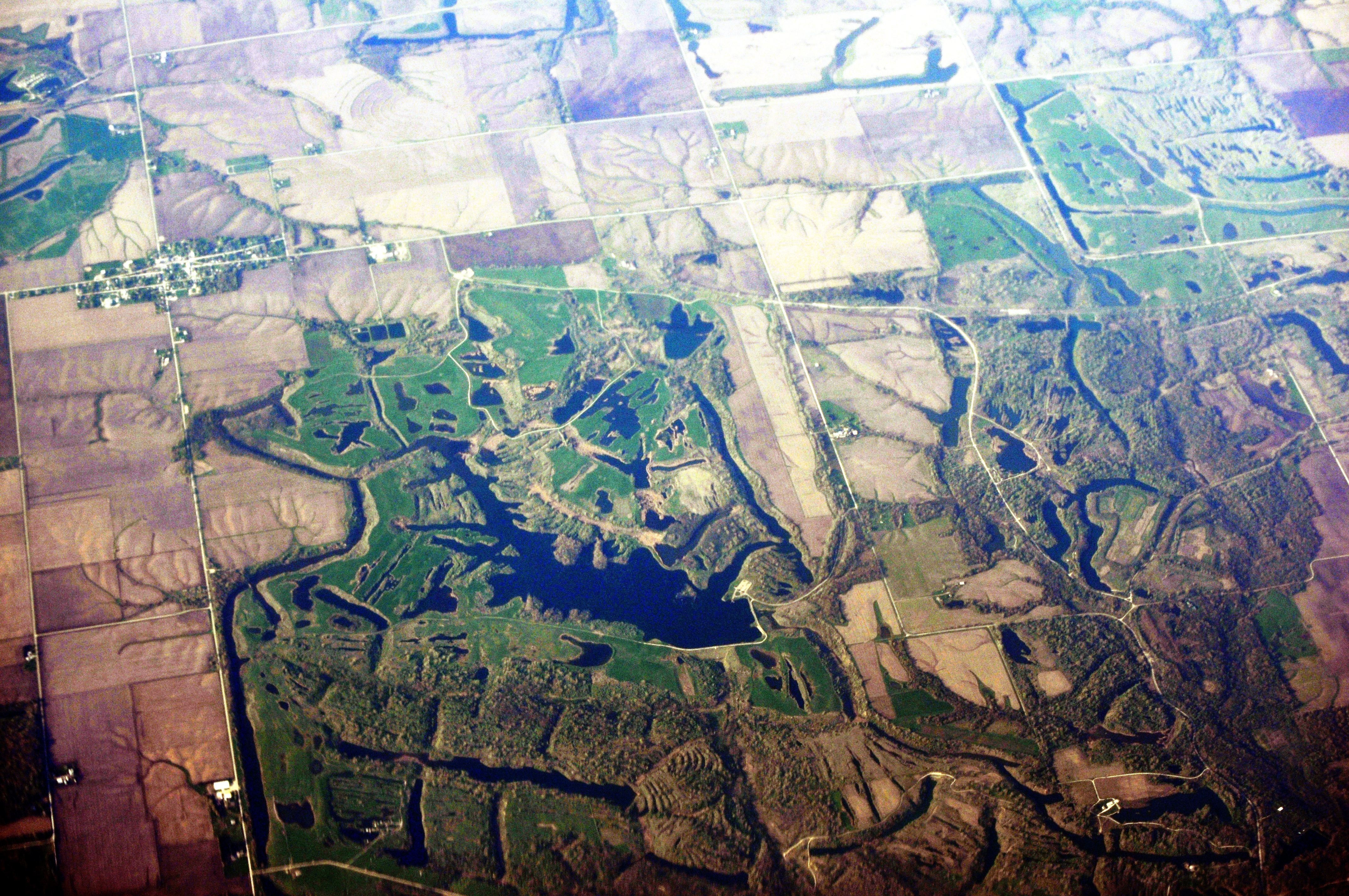 Aerial view of Snakeden Hollow Lake, Illinois, USA and vicinity.